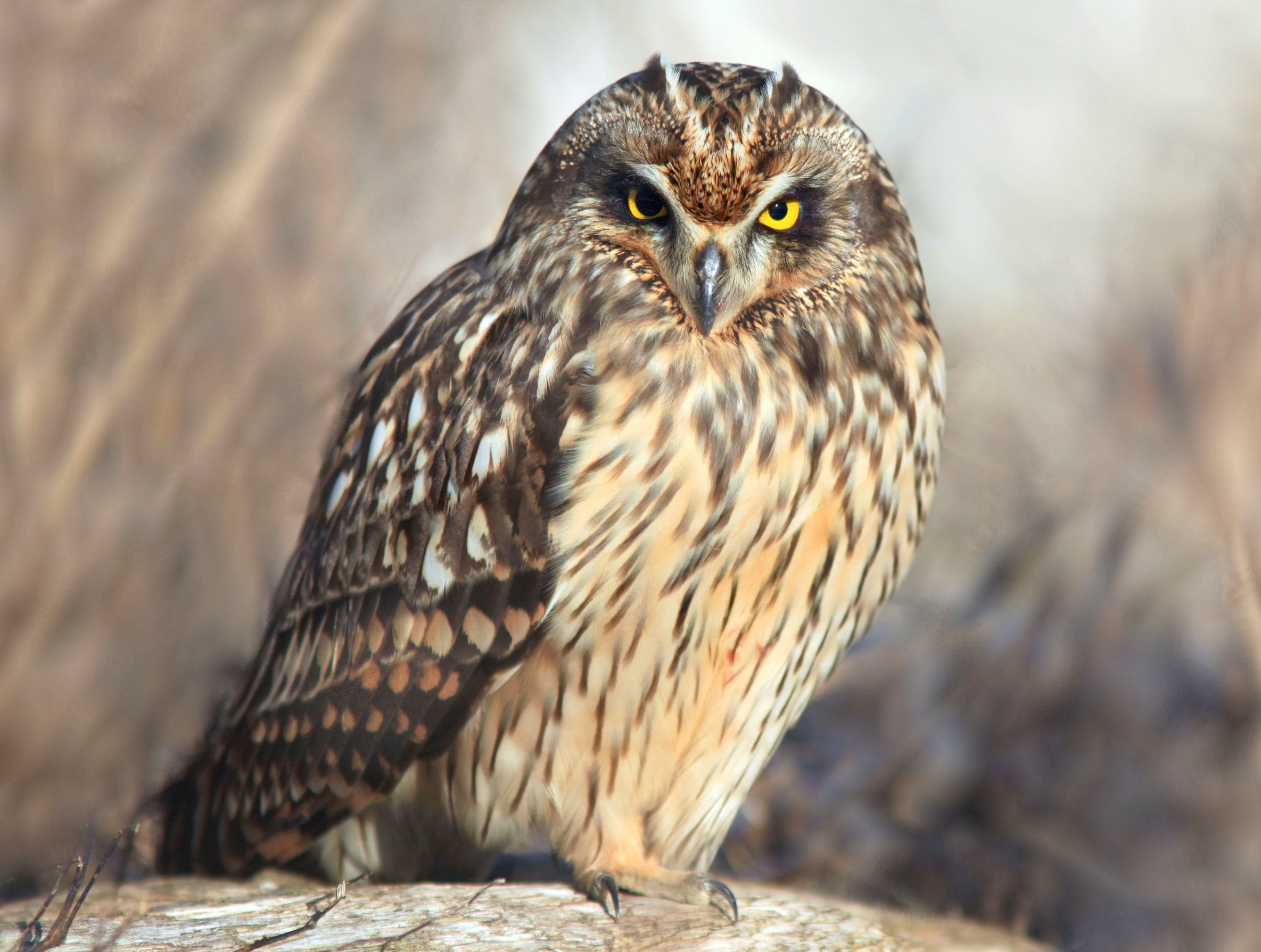 Short-eared Owl Asio flammeus, Delta, British Columbia, Canada.